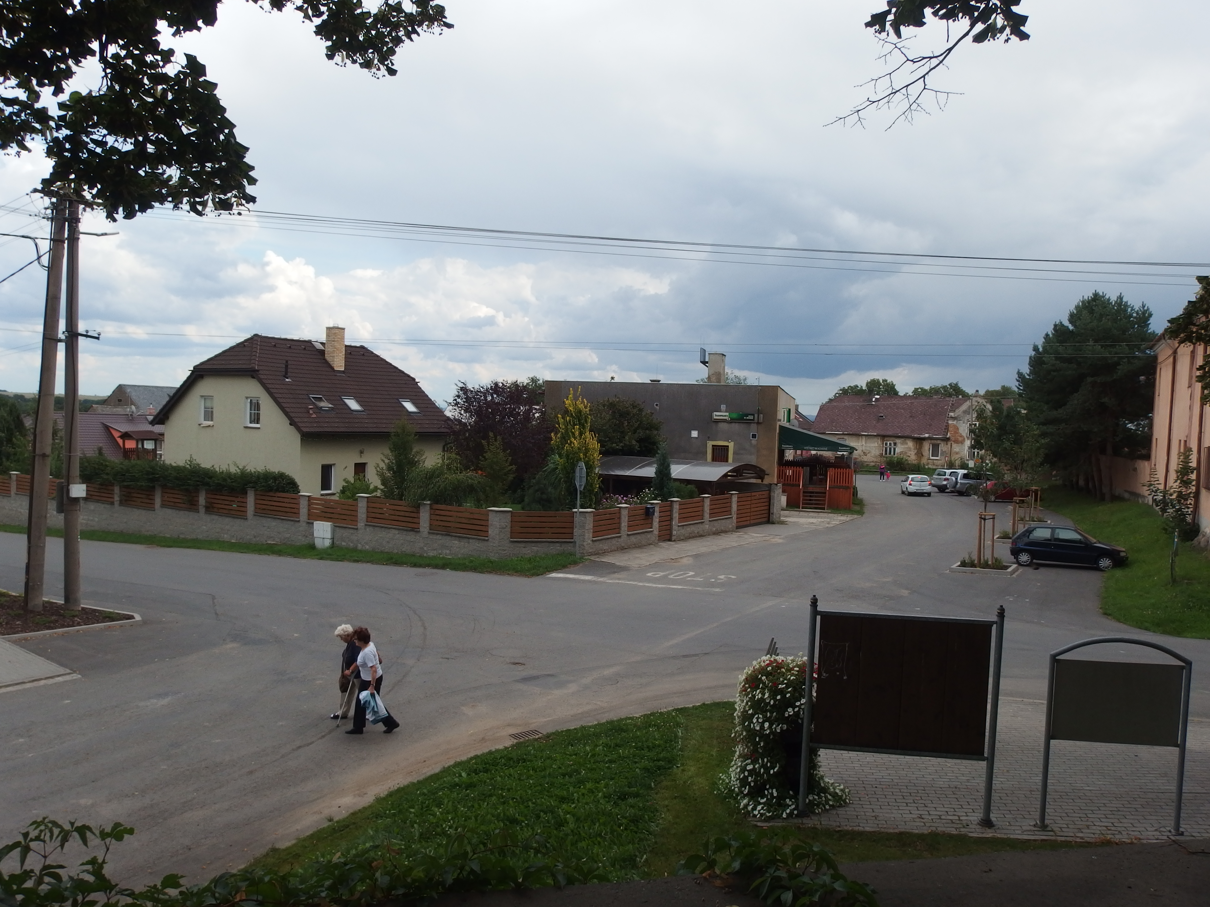 Úvalno, Bruntál District, Czech Republic.